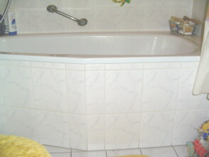 A bath/washtub.